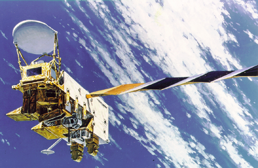 Computer simulation of the Aqua satellite